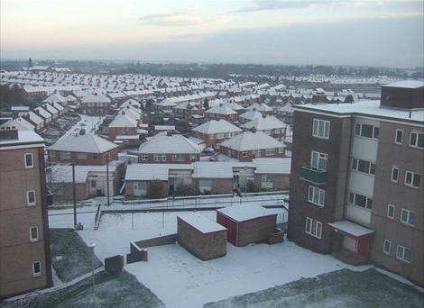 Snow over Flats in Acomb